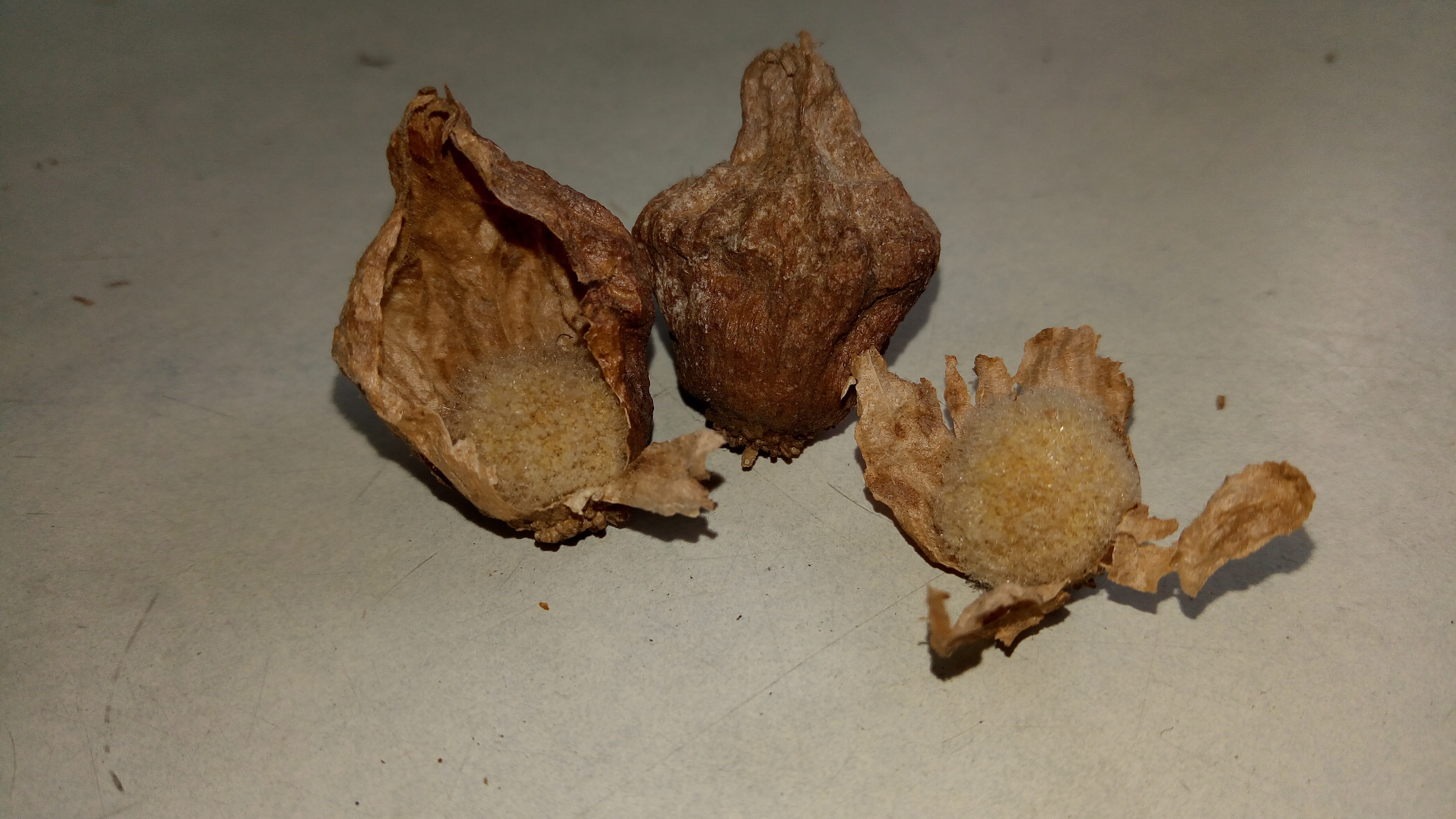 Seeds of Tectona grandis